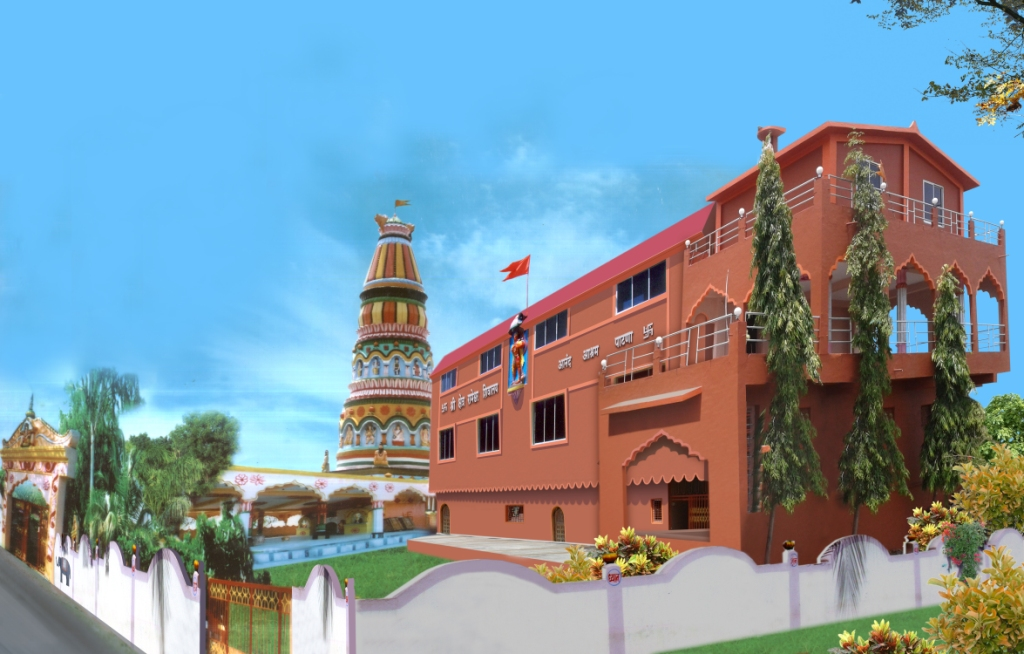 Shree Shetra Rameshwar Sivalay Anand Ashram Patne